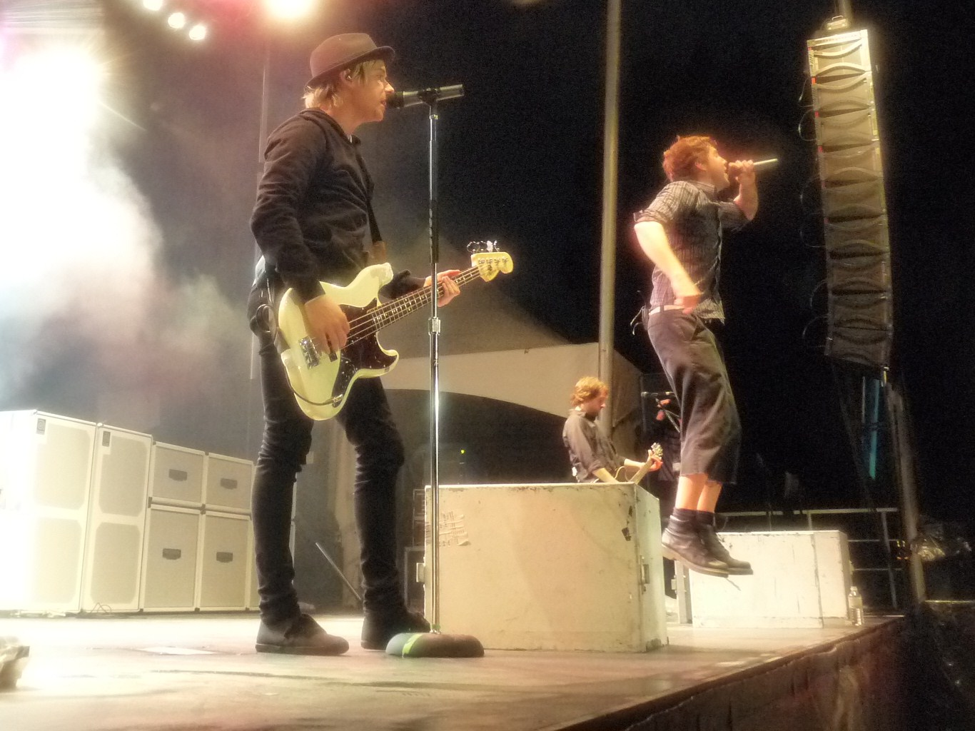 Simple Plan plays in Shawinigan-Sud, Quebec